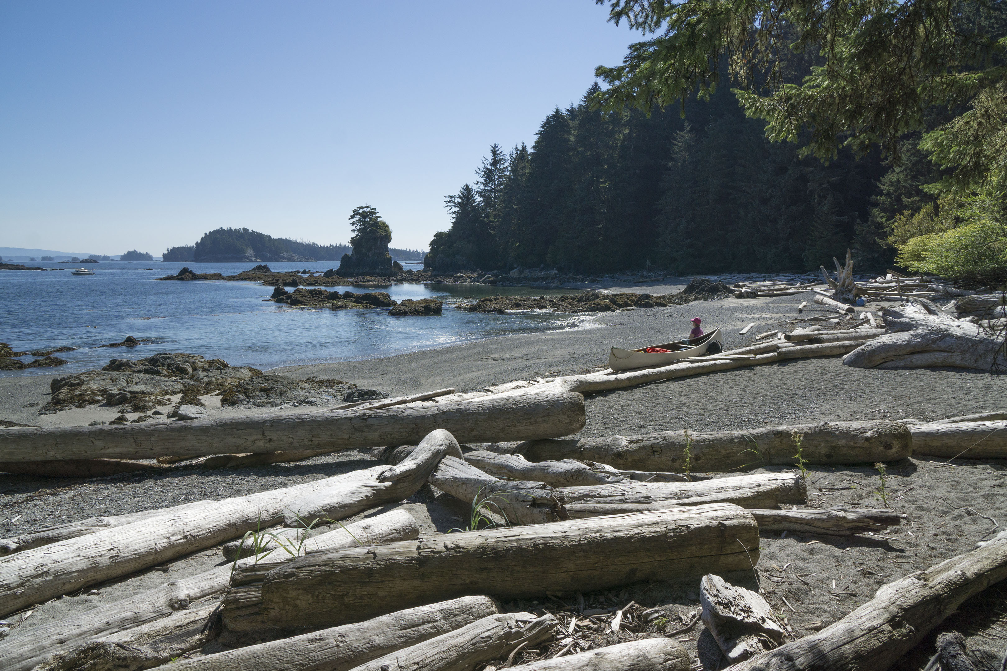 View of the southeastern beach on Benson Island, British Columbia, Canada, looking eastward